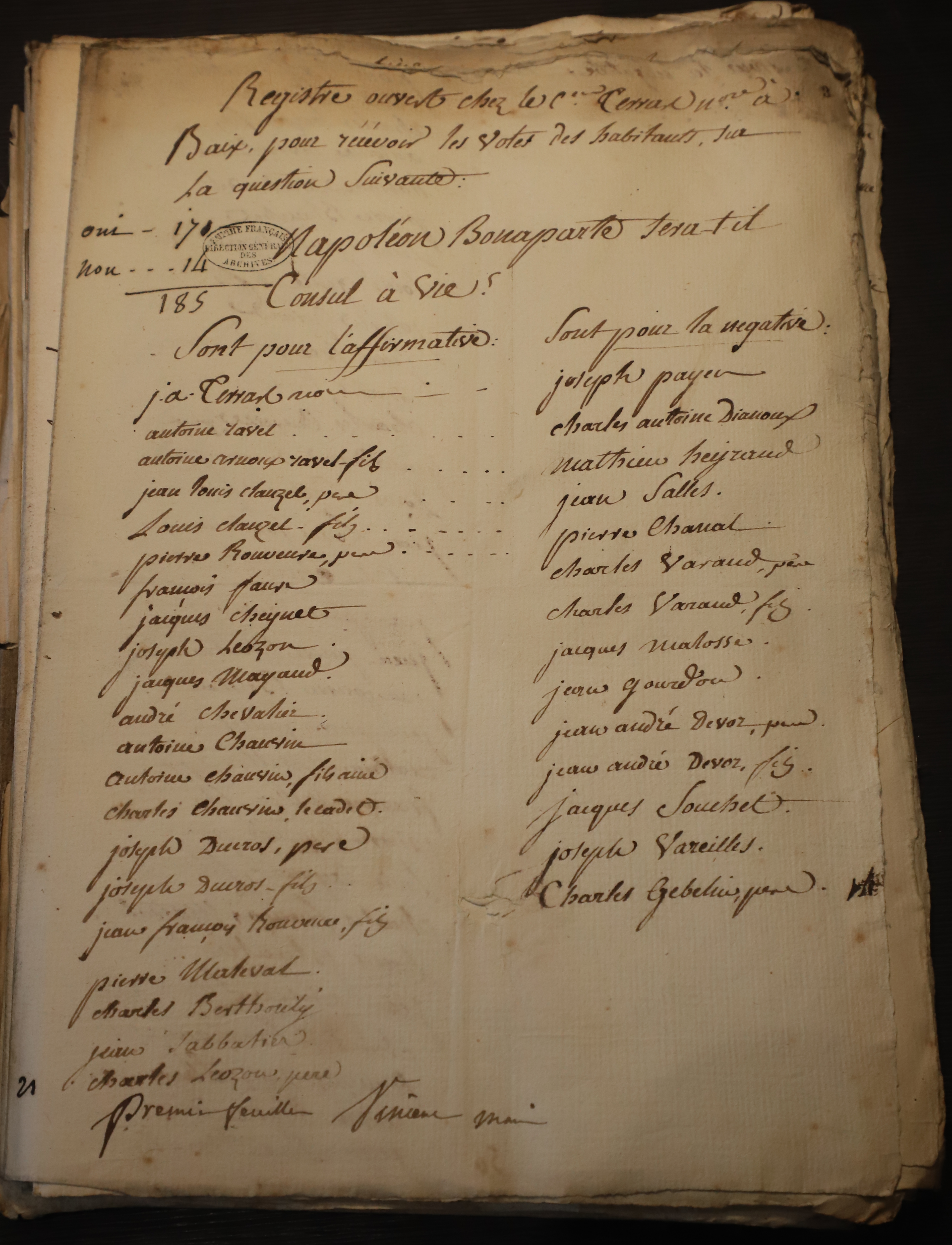 This picture is only the first page of the registry in that commune. There are 21 affirmative votes and 14 negative ones. The total for the commune is written on top : « Yes : 171 ; No : 14 ». This document can be seen in the Archives nationales in Pierrefitte sur Seine.